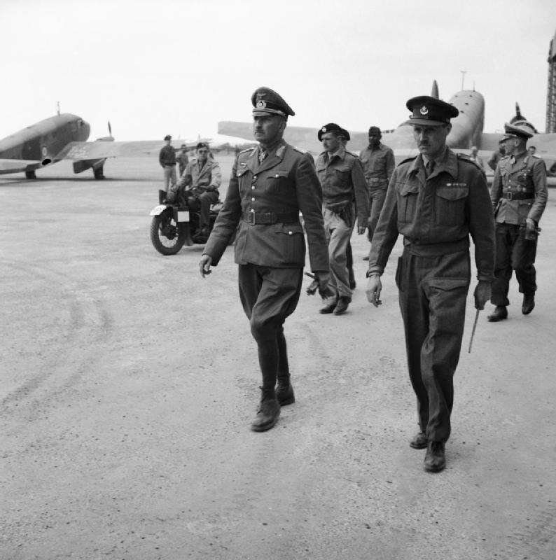 The Campaign in North Africa 1940-1943- Personalities General J von Arnim, Commander of the German Forces in North Africa after Rommel's departure during the closing stages of the Tunisian Campaign, leaves North Africa for England after the surrender of the Axis forces in North Africa.